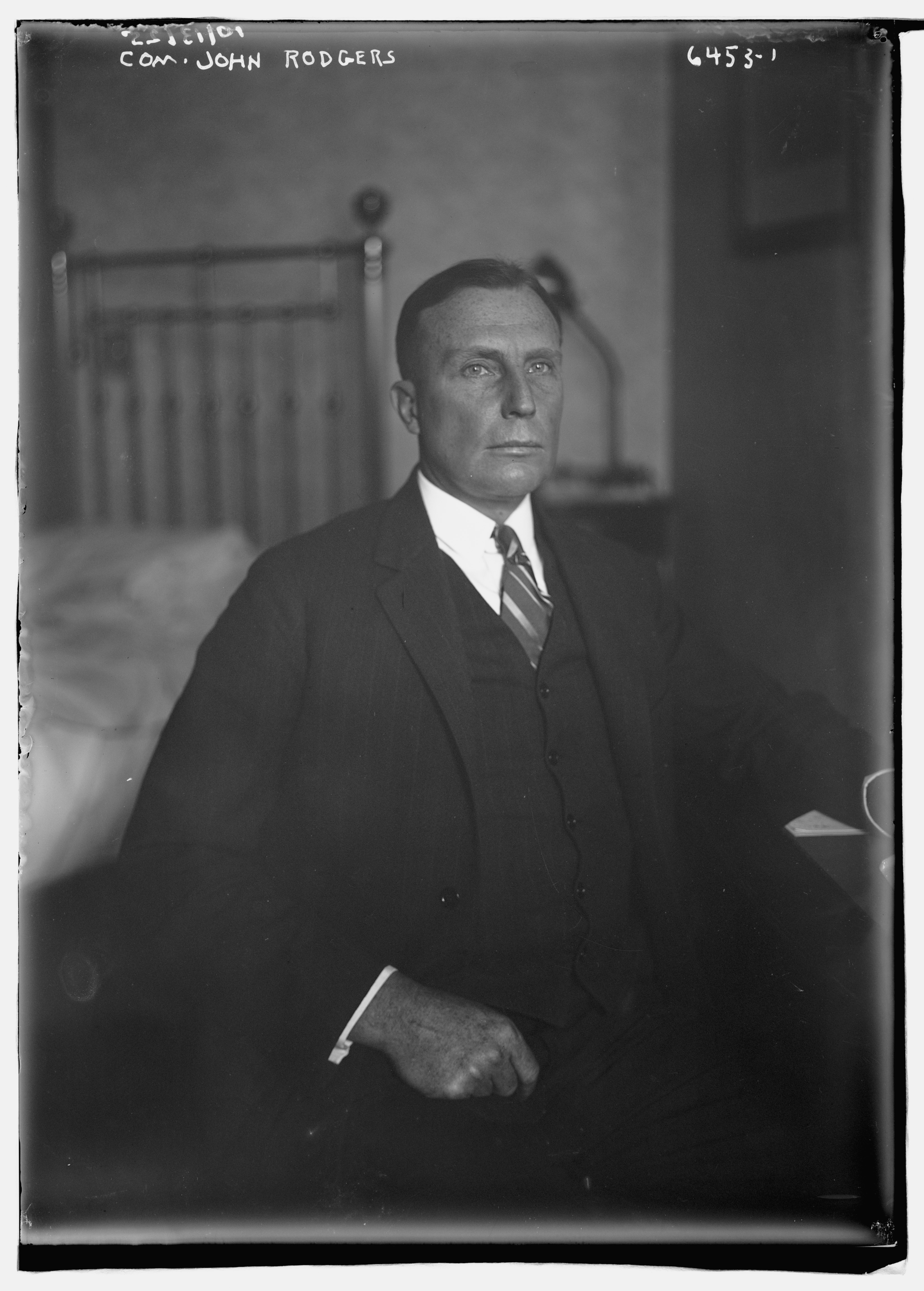 Title: Com. John Rodgers Abstract/medium: 1 negative : glass ; 5 x 7 in. or smaller.